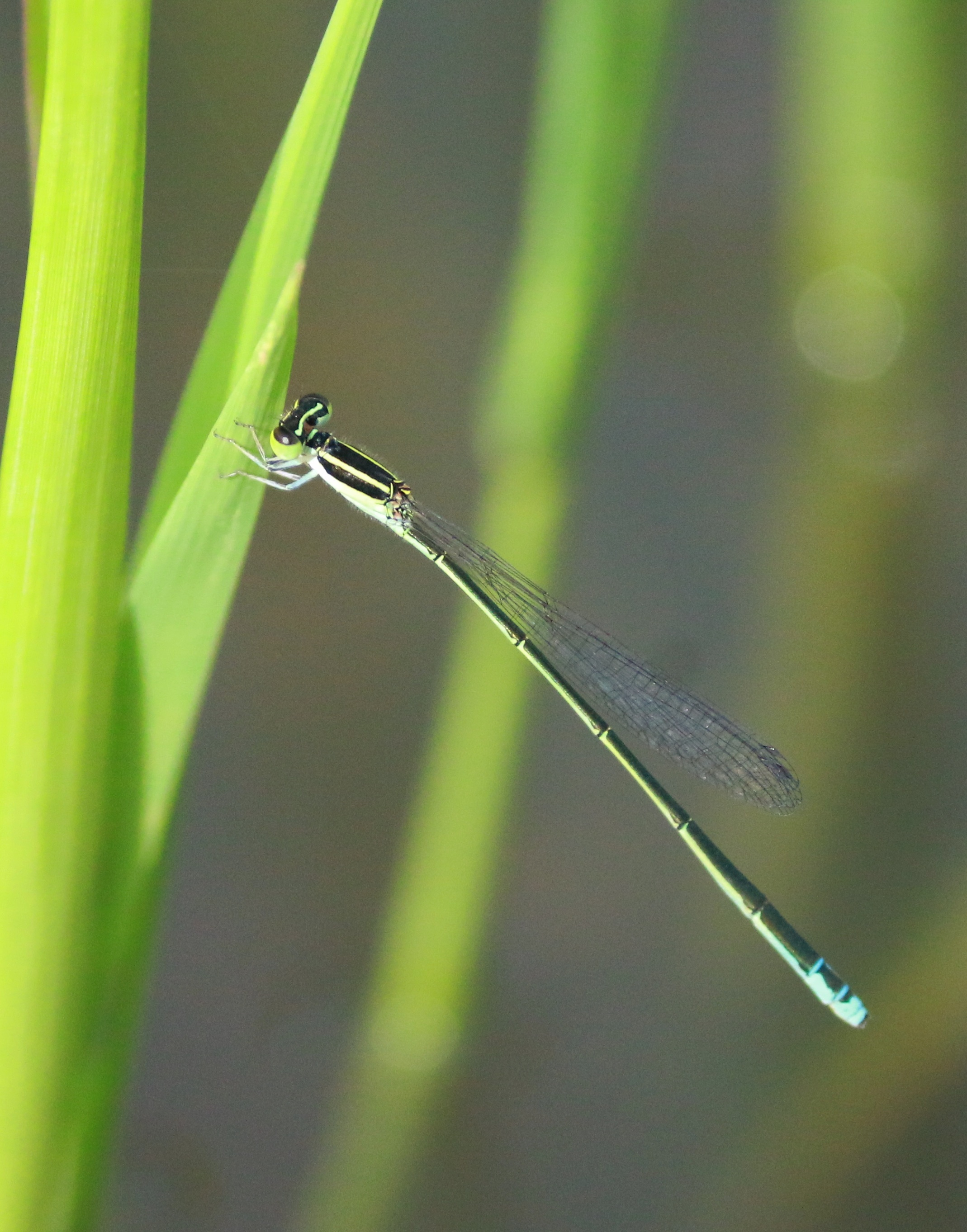 Aciagrion occidentale